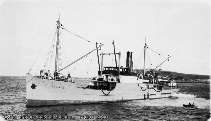 MV Nimbin Berthing at Coffs Harbour 1931 launched 1927 sank by Mine 1940